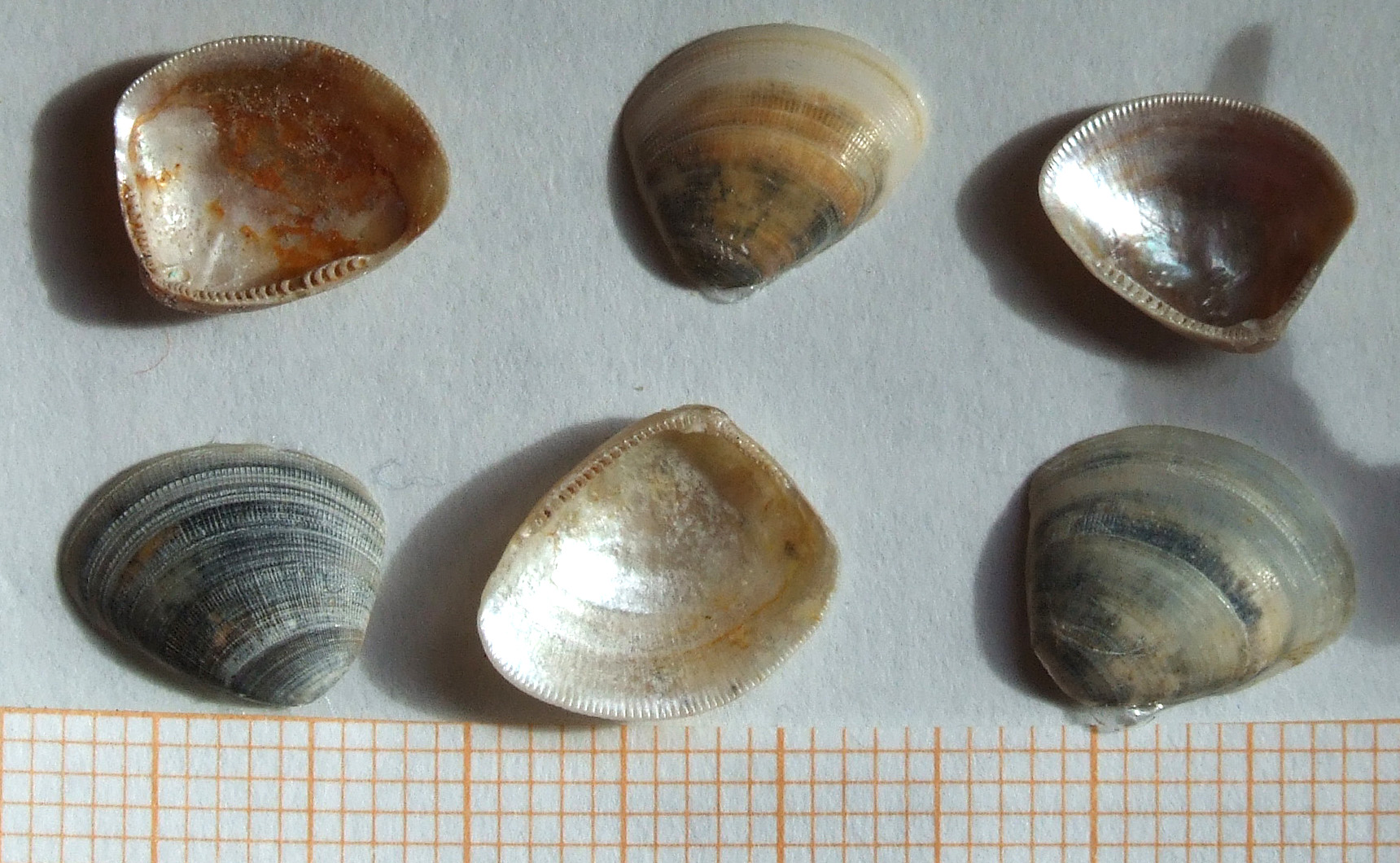 Shells of Nuclear Nut Clam, Nucula nucleus (Linnaeus, 1758), Sylt, Germany